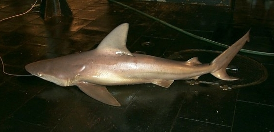 Sandbar shark (Carcharhinus plumbeus) from Gulf of Mexico